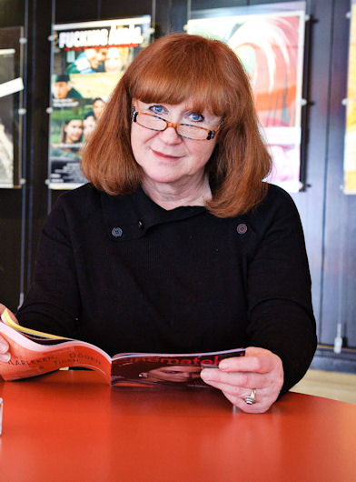 Picture of Cecilia Sidenbladh